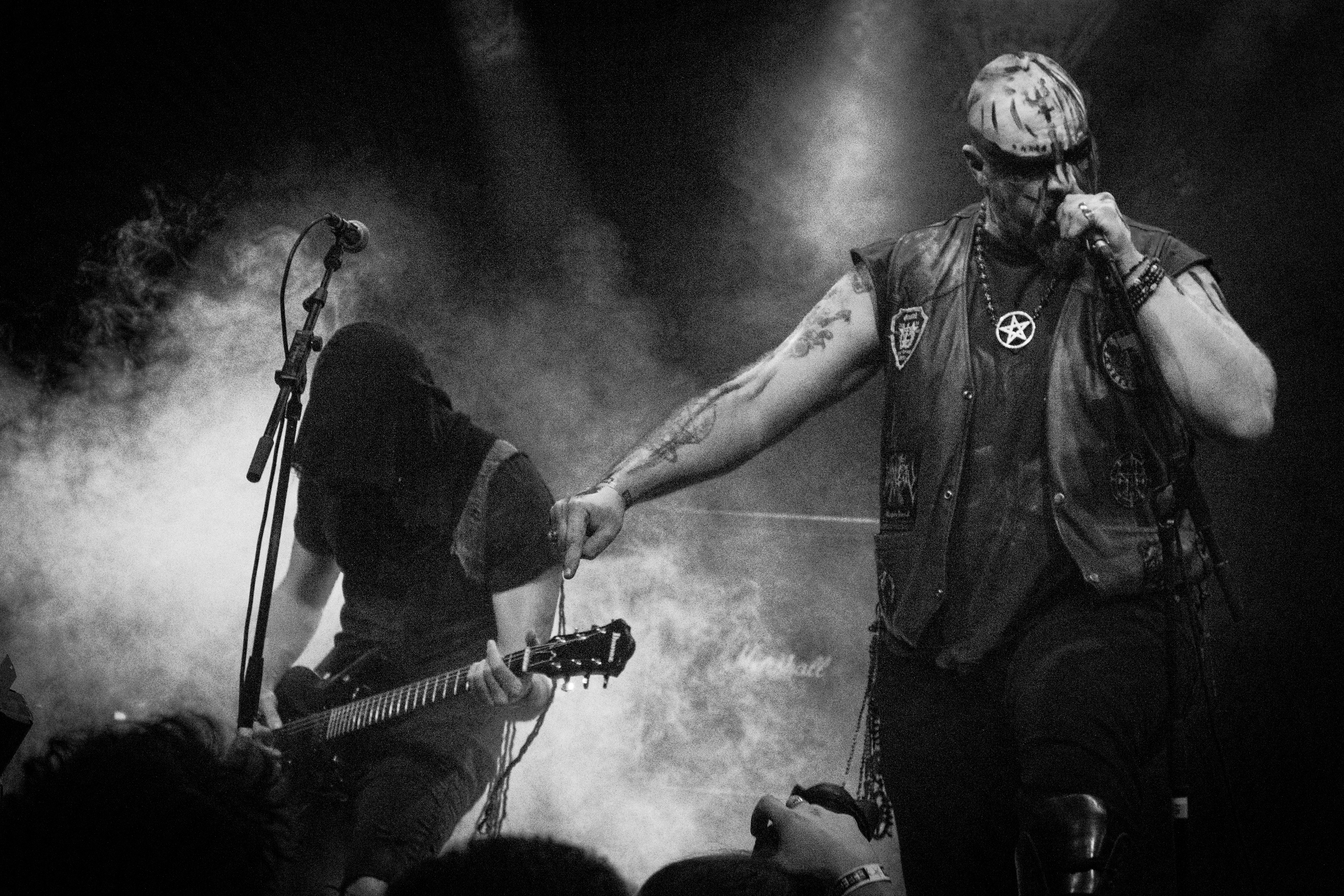 Enthroned performing live at Eindhoven Metal Meeting, 2016